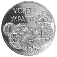 Coin of Ukraine